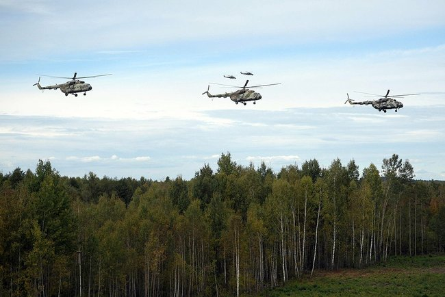 The final stage of the Zapad-2013 Russian-Belarusian strategic military exercises.